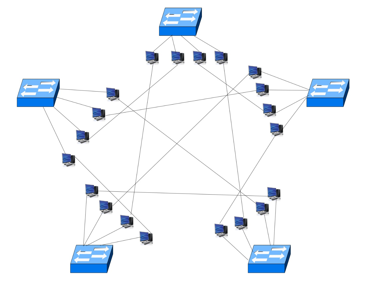 topologia di rete per data center DCell, n = 4